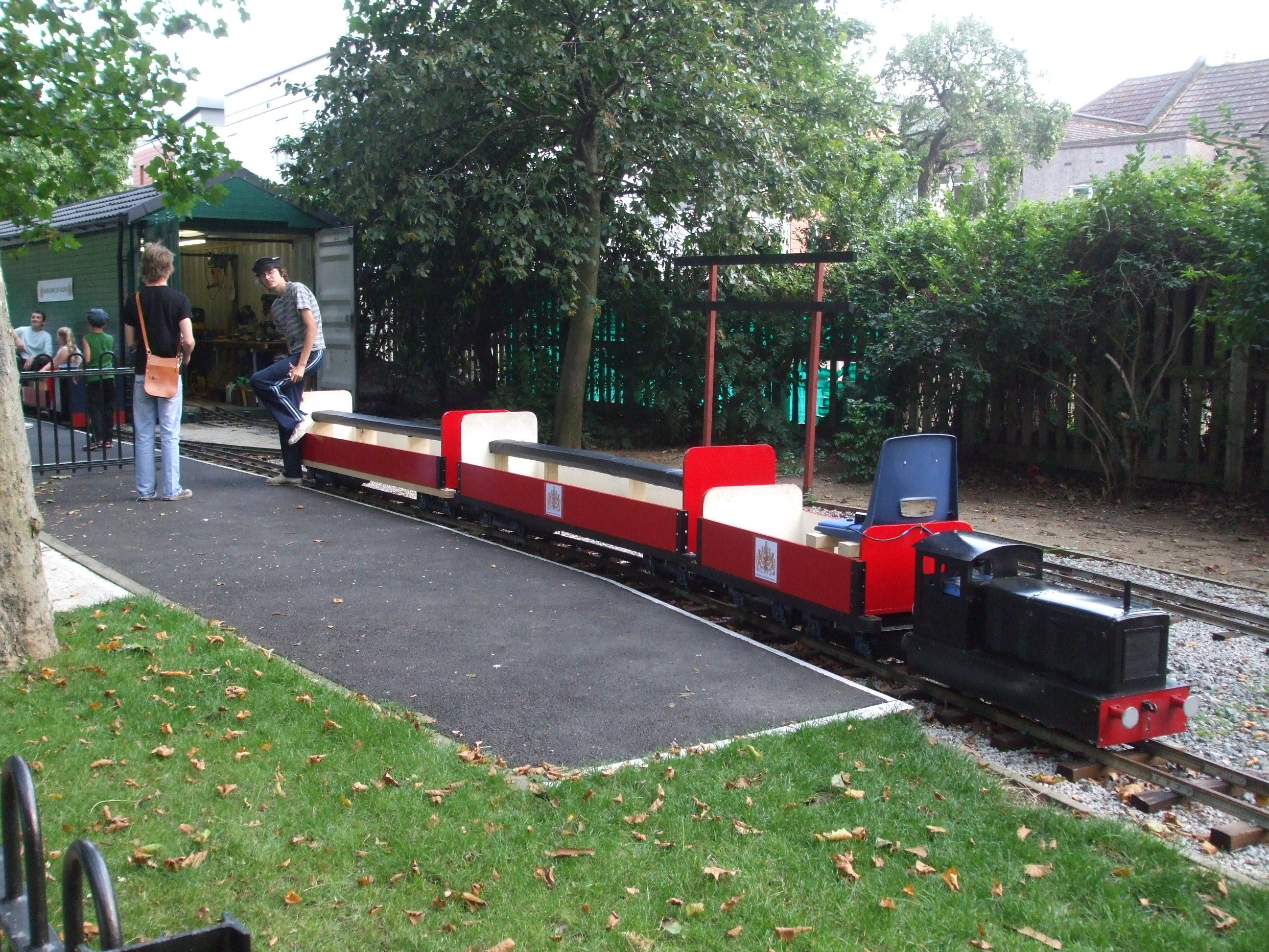 Park Gates station with the black train, at the southern end of the Barking Park Light Railway (7.25" gauge).